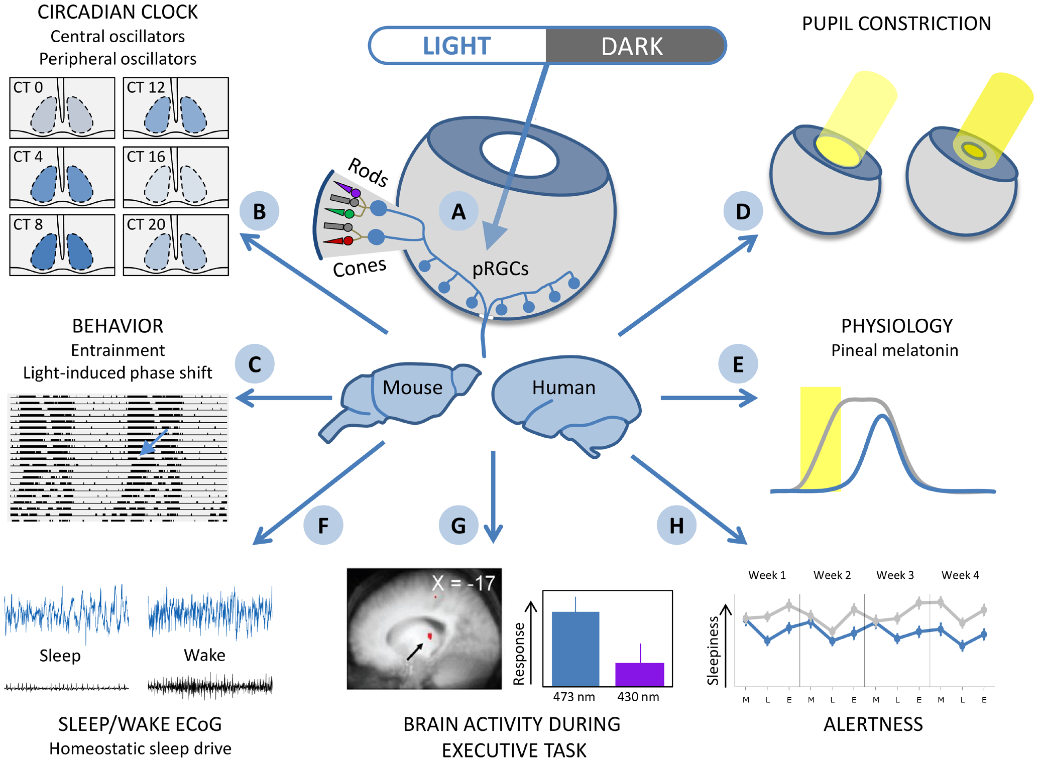 Figure 1. Summary of pervasive effects of light. A diffuse network of photosensitive retinal ganglion cells (pRGCs), which also receive input from rods and cones, are maximally sensitive to blue light between 470 and 480 nm (A). These cells have direct connections to the central circadian oscillator in the SCN where depending on the time of day (circadian time, CT) light induces changes in gene expression (B). pRGCs also mediate the synchronisation to LD cycles of locomotor activity, and light-induced phase shifts (C). pRGC connections to the olivary pretectal nucleus mediate light-sensitive pupil constriction (D), and indirect input via the SCN regulates the light-sensitive suppression of melatonin production in the pineal (E). The pRGC network has direct connections to sleep regulatory structures such as the VLPO and thereby modulates sleep and the ECoG during wakefulness (F). Blue light can modify brain responses to an executive task, as measured using fMRI (G) (figure adapted from [33], with permission), and can improve alertness (H) during the morning, lunch time, and early evening (figure based on data published in [32]).